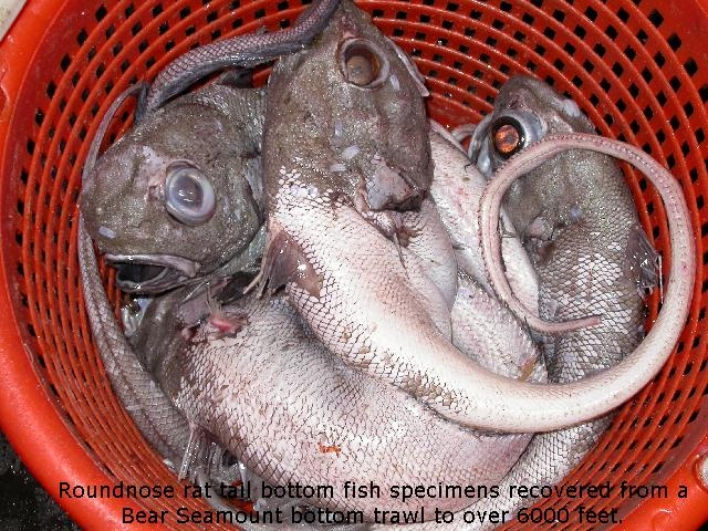 Roundnose rattail Coryphaenoides rupestris bottom fish collected from Bear Seamount at over 6000 feet depth. The superimposed text at the bottom of this image is: "Roundnose rat tail bottom fish specimens recovered from a Bear Seamount bottom trawl to over 6000 feet."